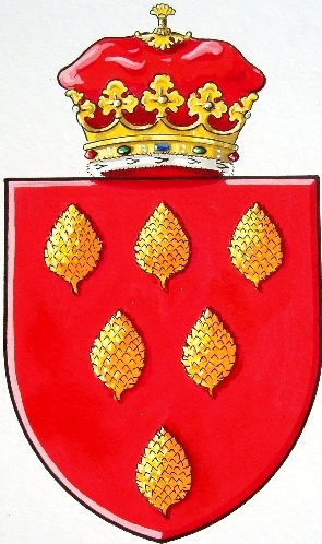 The arms of the Pinelli, Dukes of Acerenza, of the Princes of Belmonte, shown with a coronet of a Duke